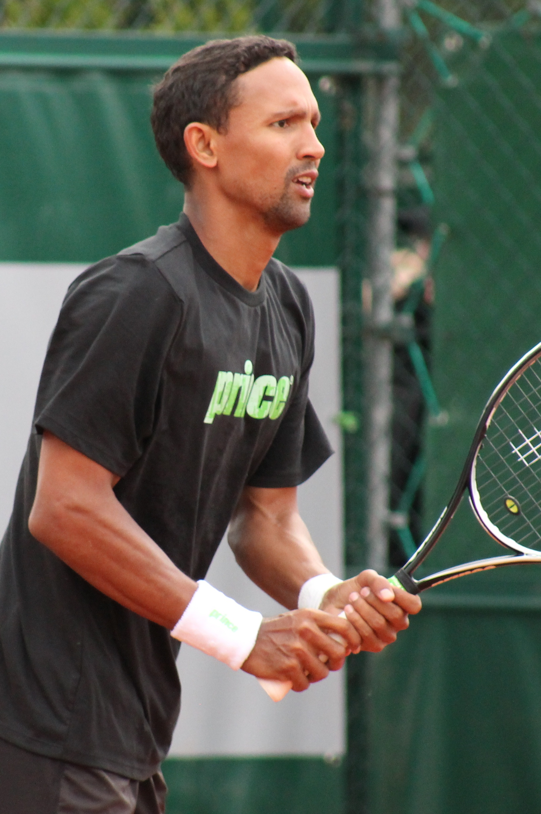 Raven Klaasen practicing at Roland Garros 2013